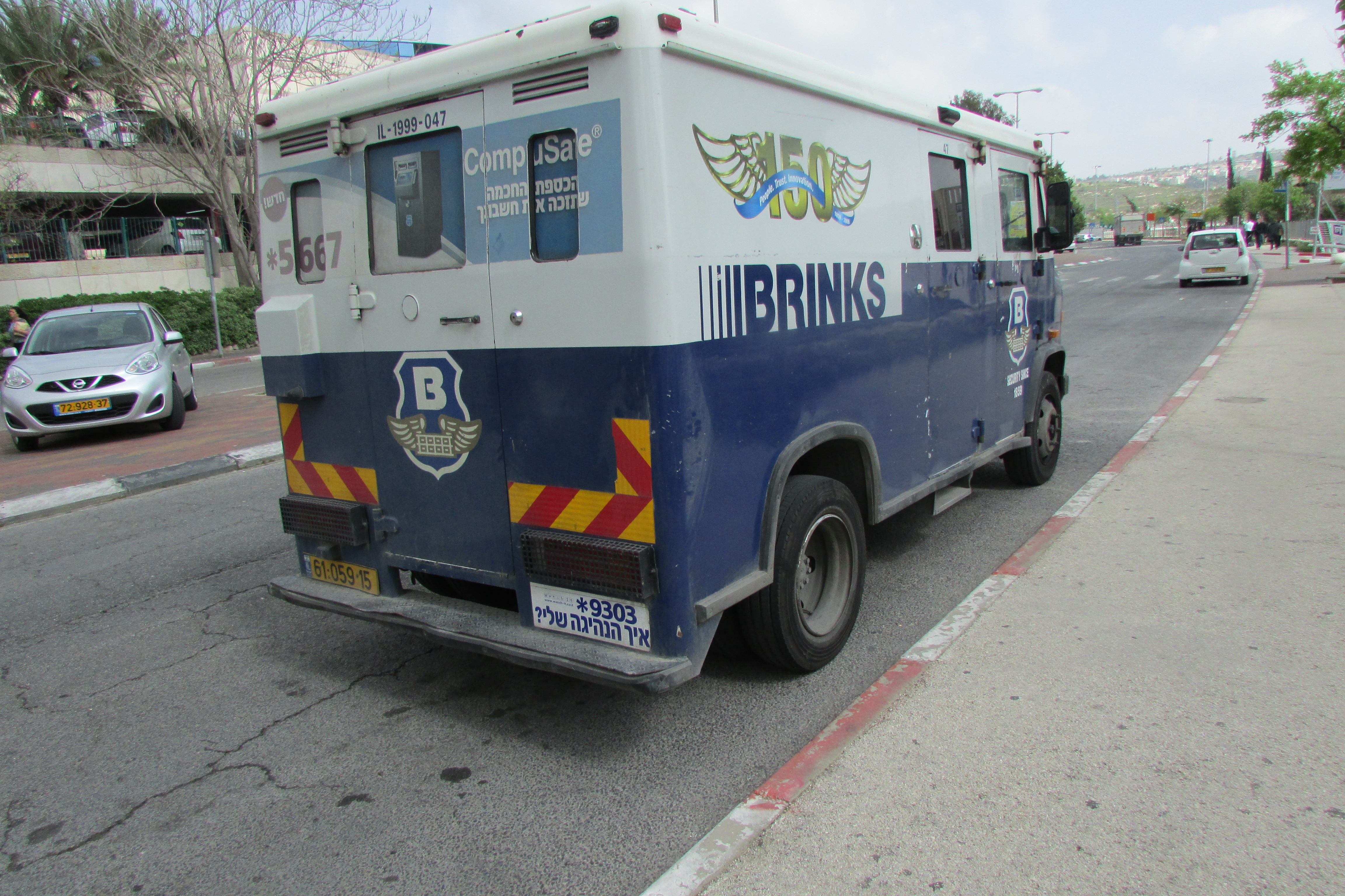 Jerusalem, Malha technology garden - Armoured van of Brinks in Jerusalem